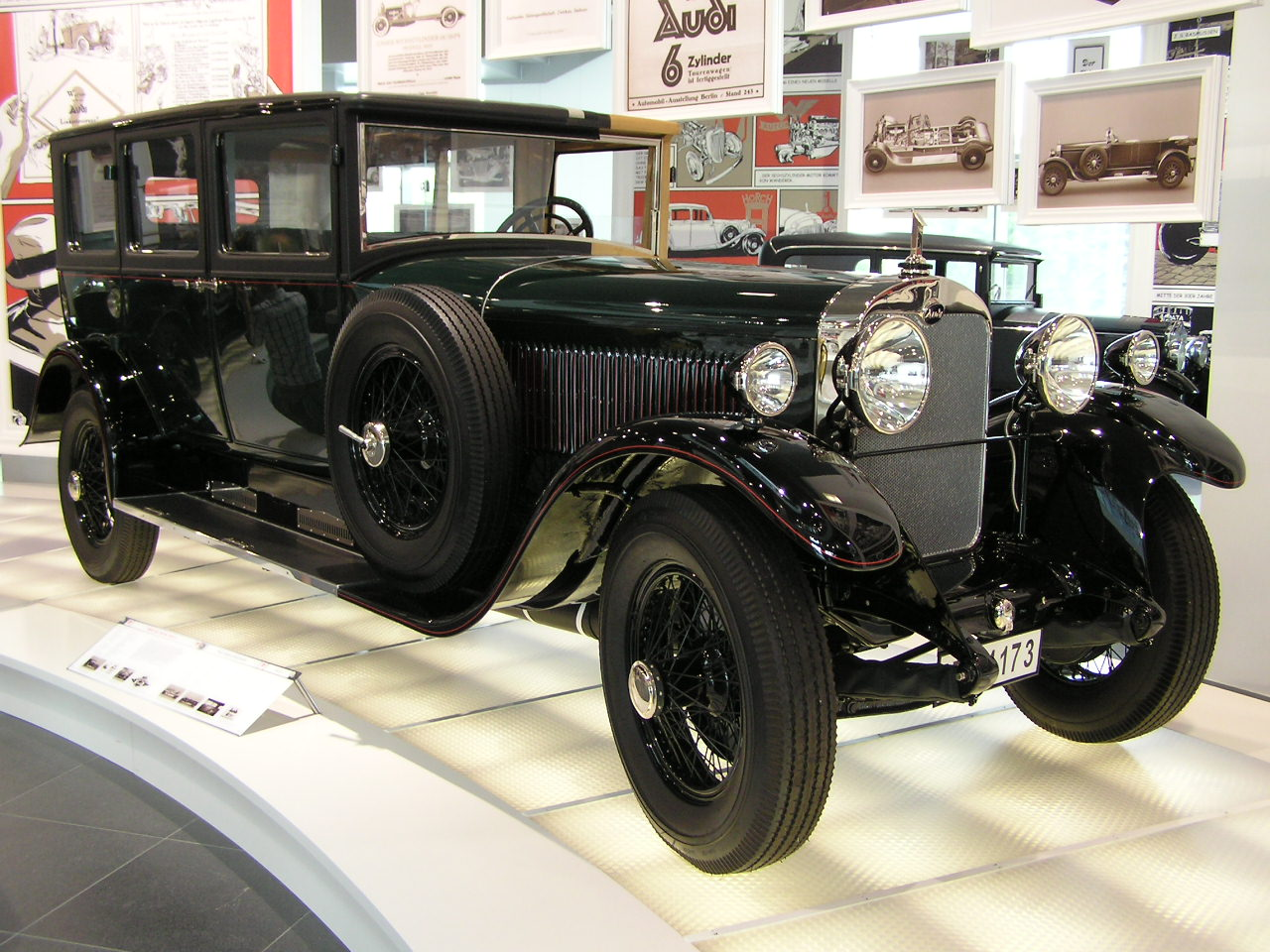 Audi Type M